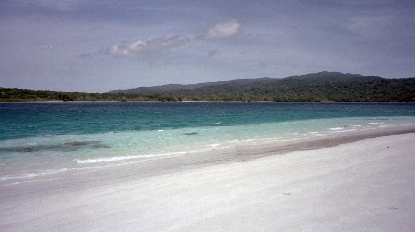 Ujung Kulon National Park, Indonesia.